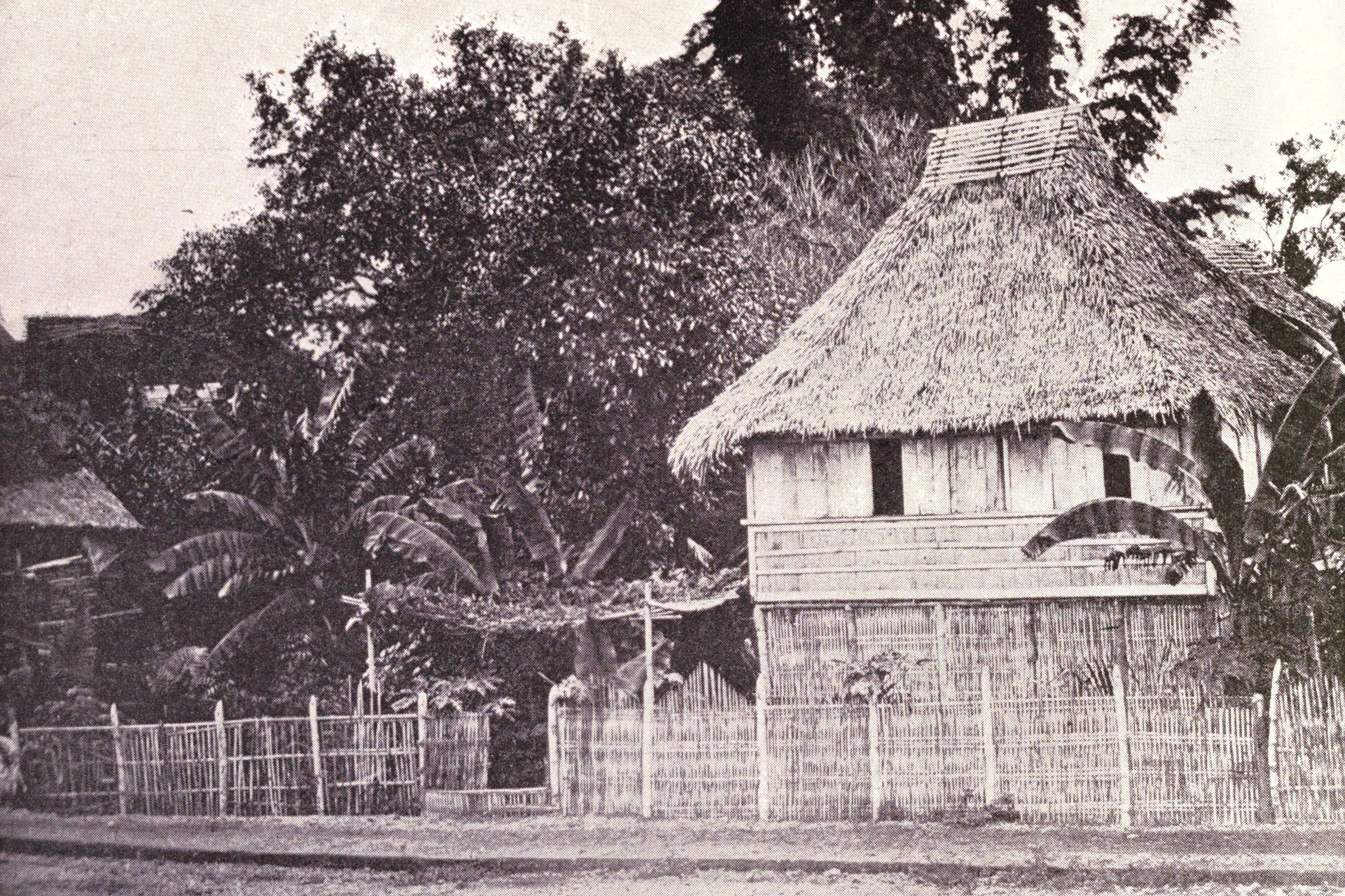 Original caption (cropped out): A native residence in the suburbs of Manila Description (cropped out): Every cottage, however humble, is surrounded by tropical trees and flowers. The interiors are remarkably clean and cheerful. Bamboo enters largely in the construction of all native houses and they are generally covered with thatch.